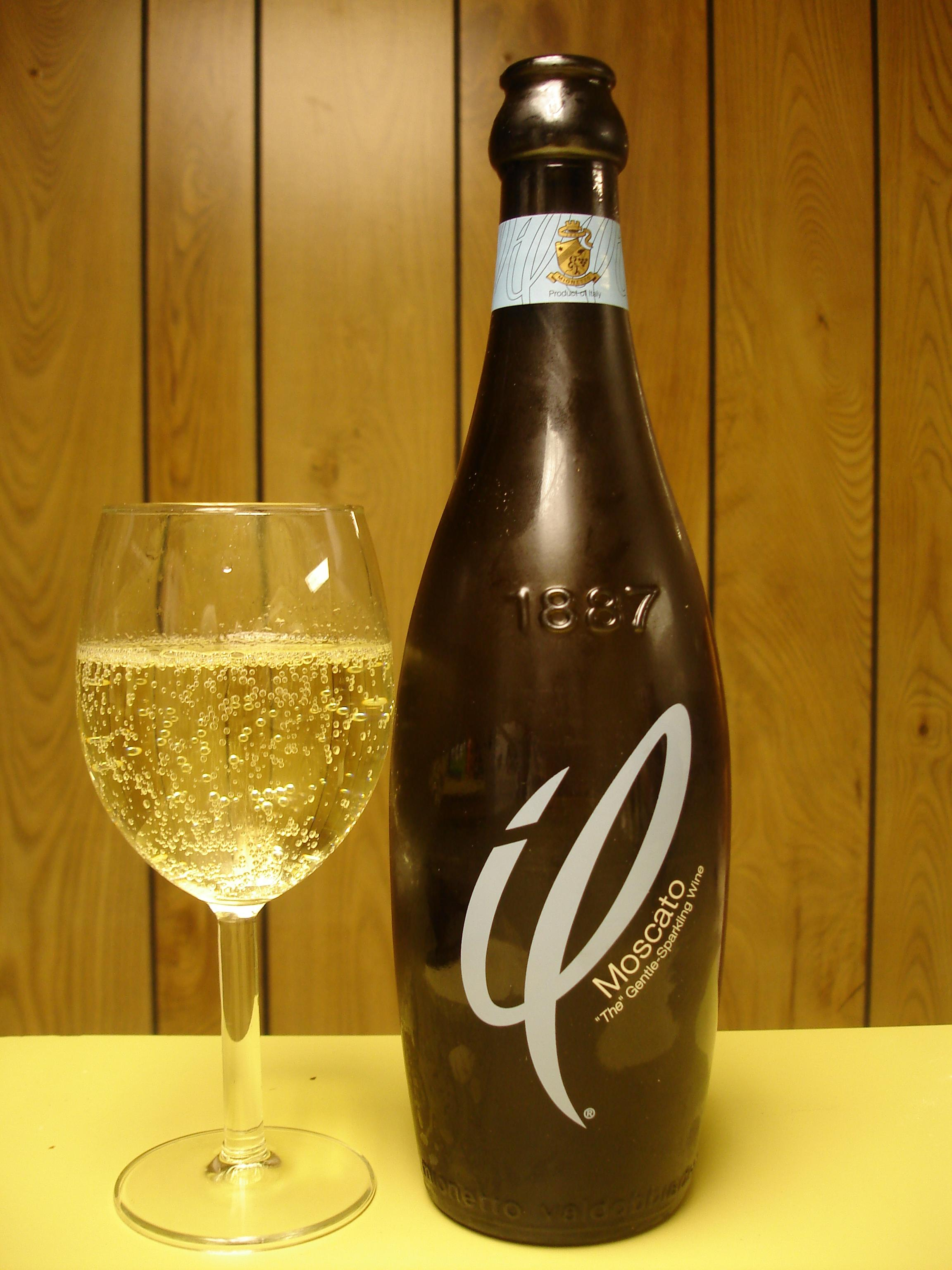 Bottle and glass of sparkling moscato from Italy.